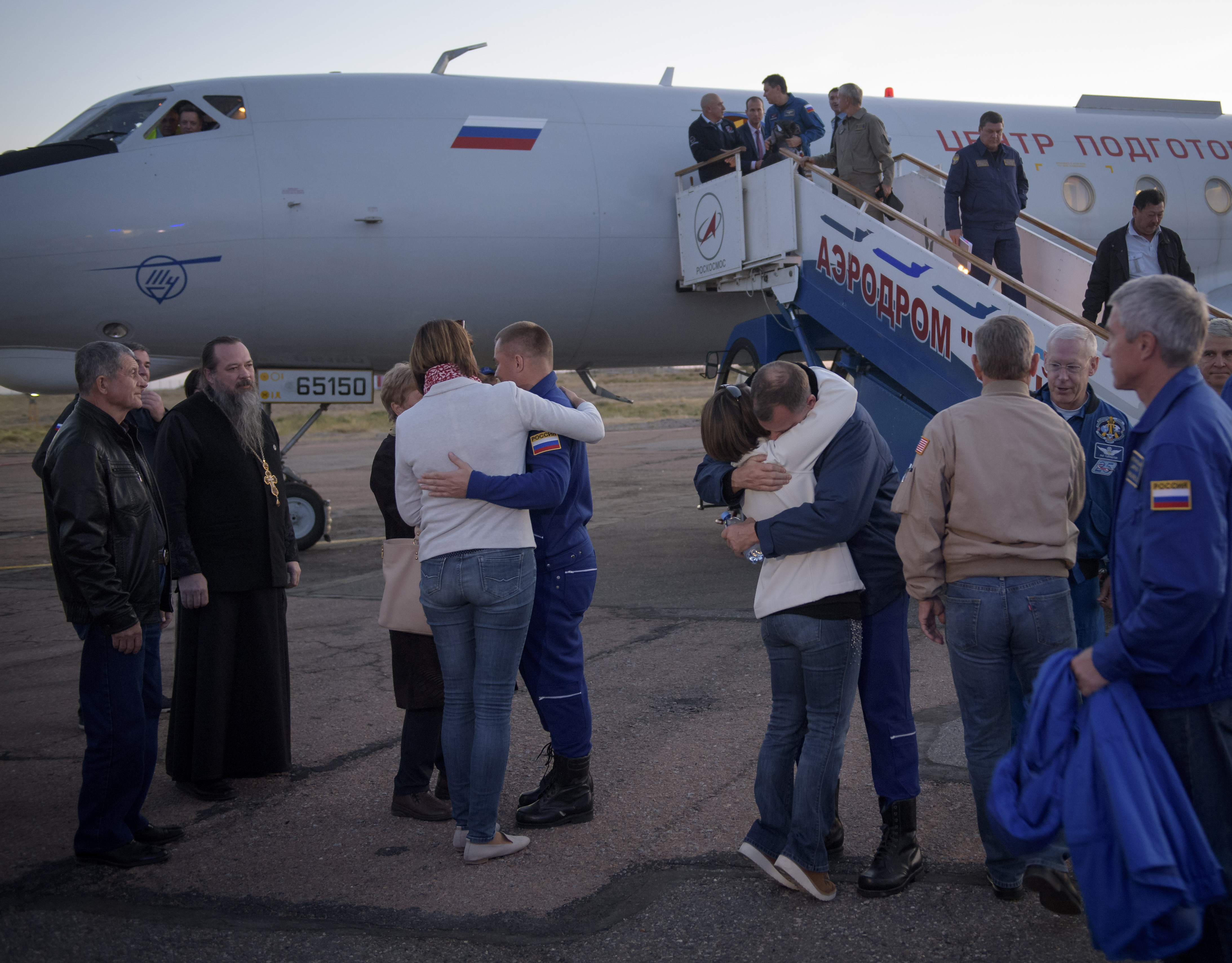 Expedition 57 Flight Engineer Alexey Ovchinin of Roscosmos, left, and Flight Engineer Nick Hague of NASA, right, embrace their families after landing at the Krayniy Airport, Thursday, Oct. 11, 2018 in Baikonur, Kazakhstan. Hague and Ovchinin arrived from Zhezkazgan after Russian Search and Rescue teams brought them from the Soyuz landing site. During the Soyuz MS-10 spacecraft's climb to orbit, an anomaly occurred, resulting in an abort downrange. The crew was quickly recovered and is in good condition.